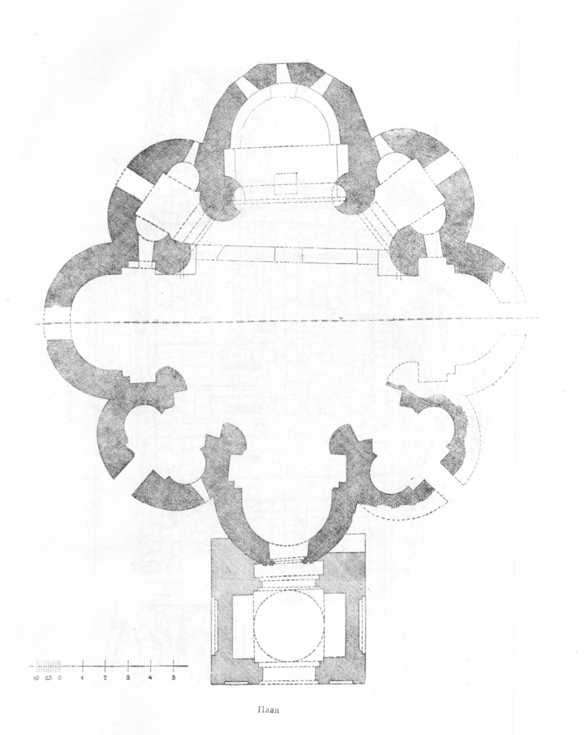 Ninotsminda Cathedral plan